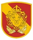 Montenegrin Ground Army coat of arms